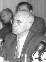 German author Johannes R. Becher